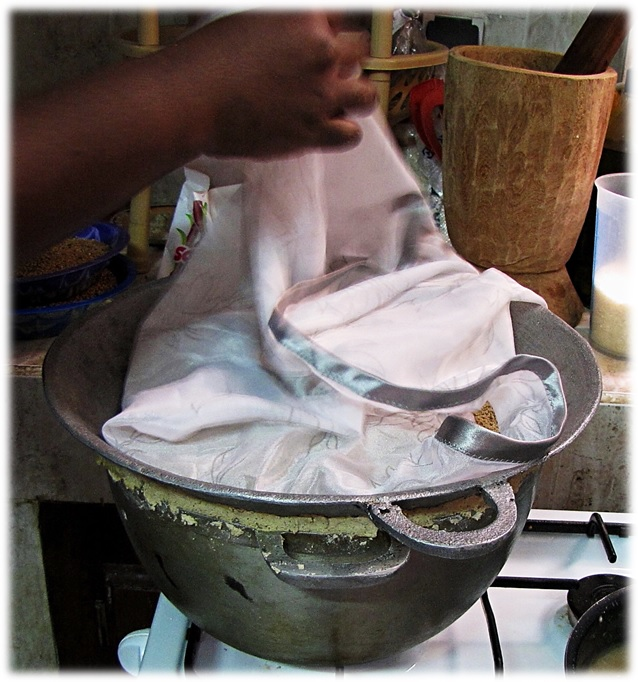 A cloth keeps the millet couscous from becoming soggy, while millet flour paste seals the gap so no steam escapes below on make-shift steamer made from recycled scrap aluminum - all utensils do double-duty This is an image of food from Senegal